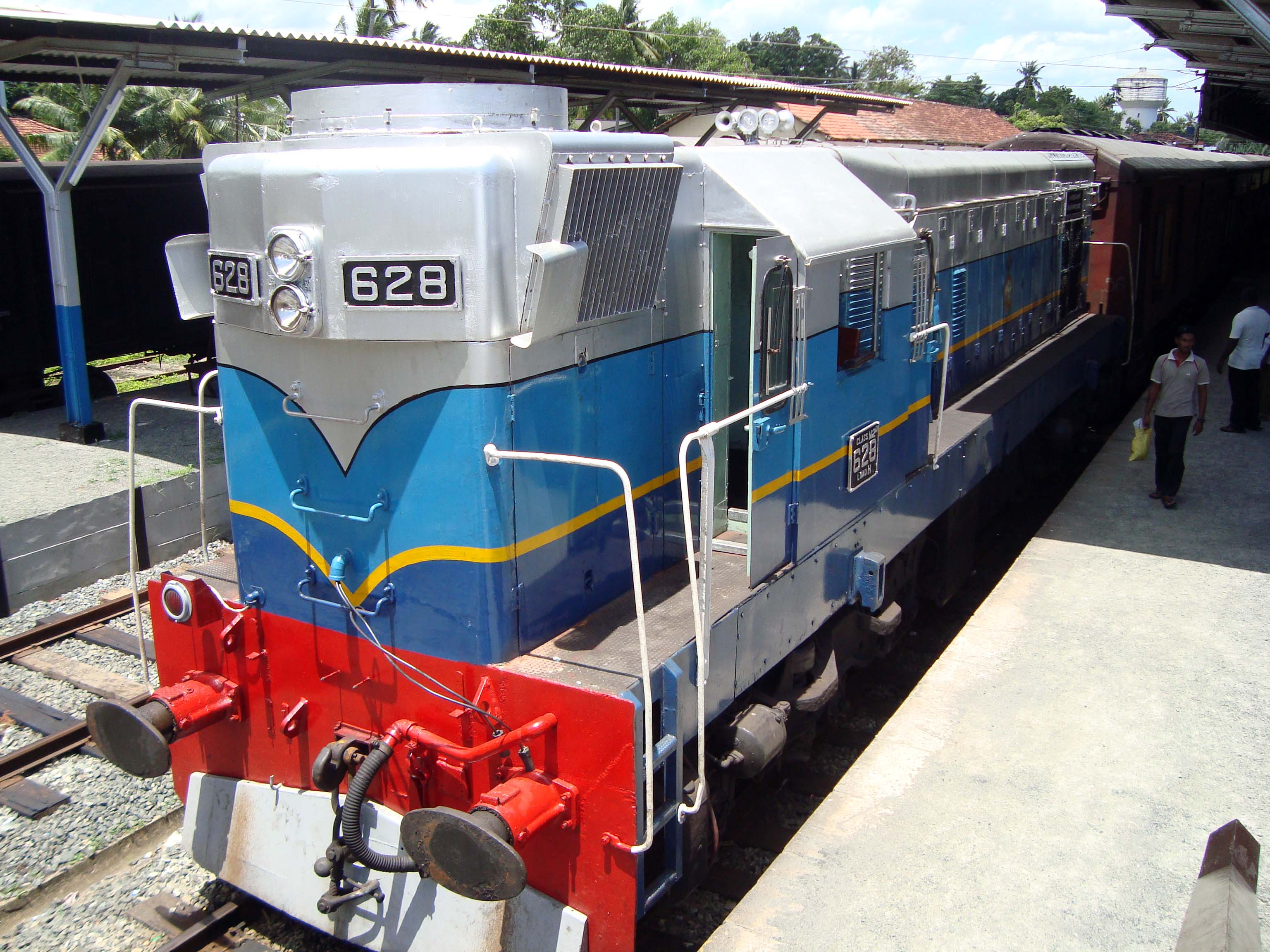 Class M2 Diesel-electric Locomotive No.628 Kankesanthurai at Matara Station. These locos were imported to Sri Lanka from Canada in batches since 1954.